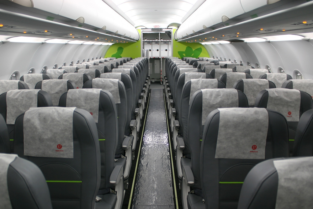 New A320 for S7. Before first passenger flight.